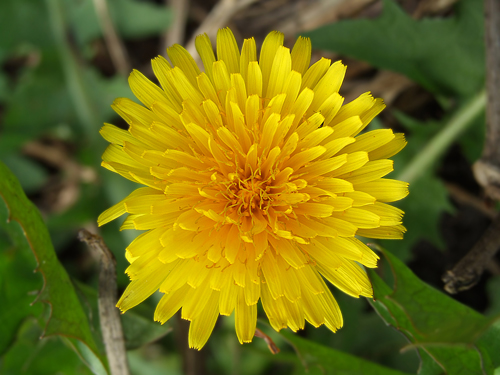 Sonchus Arvensis